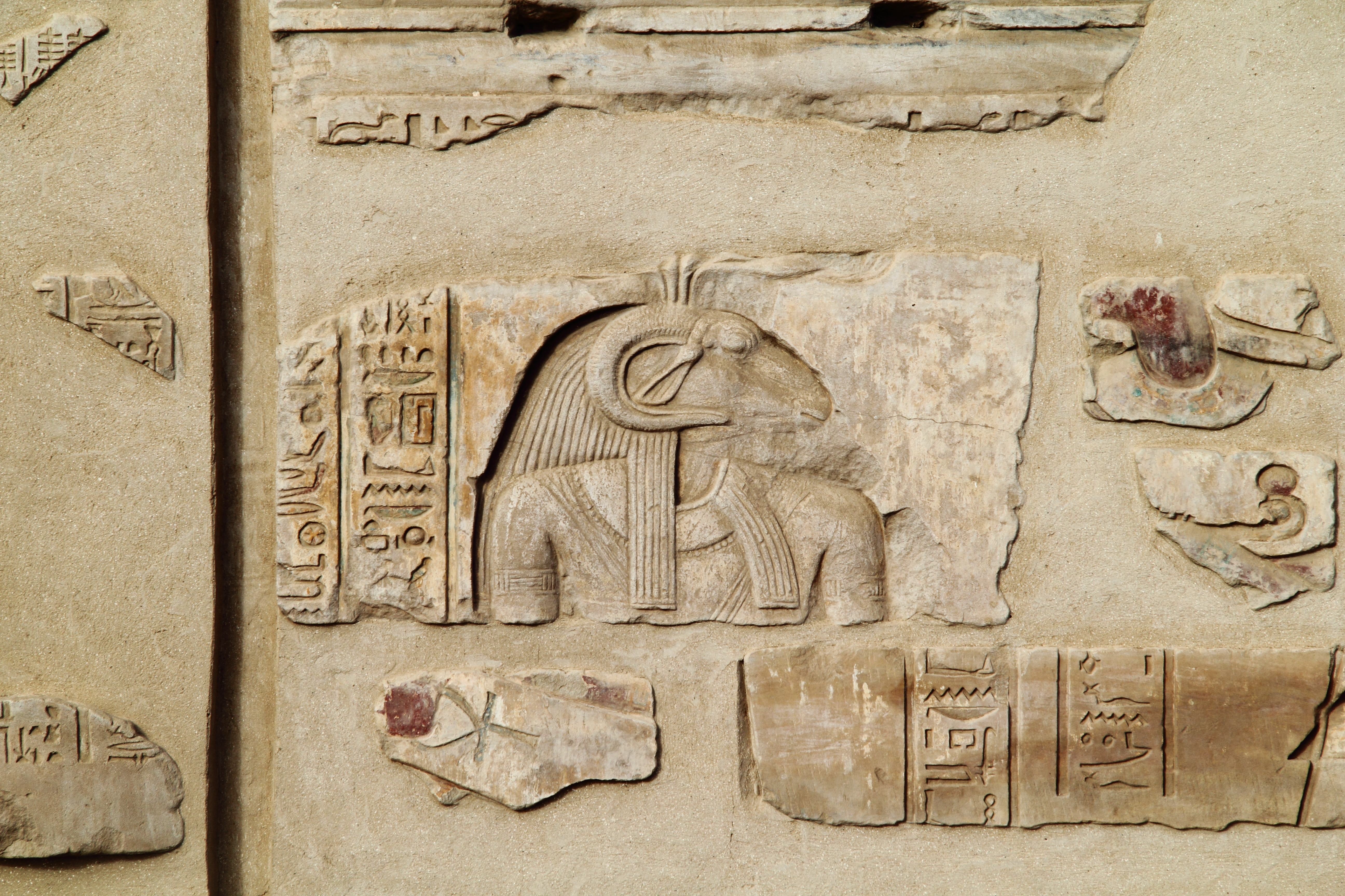 Elephantine, island in the Nile with archaeological site, part of the city of Aswan, Upper Egypt, relief incised in stone, showing the portrait of the ram-headed ancient Egyptian god Khnum